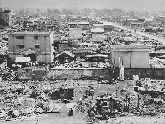 Hachioji after the 1945 air raid